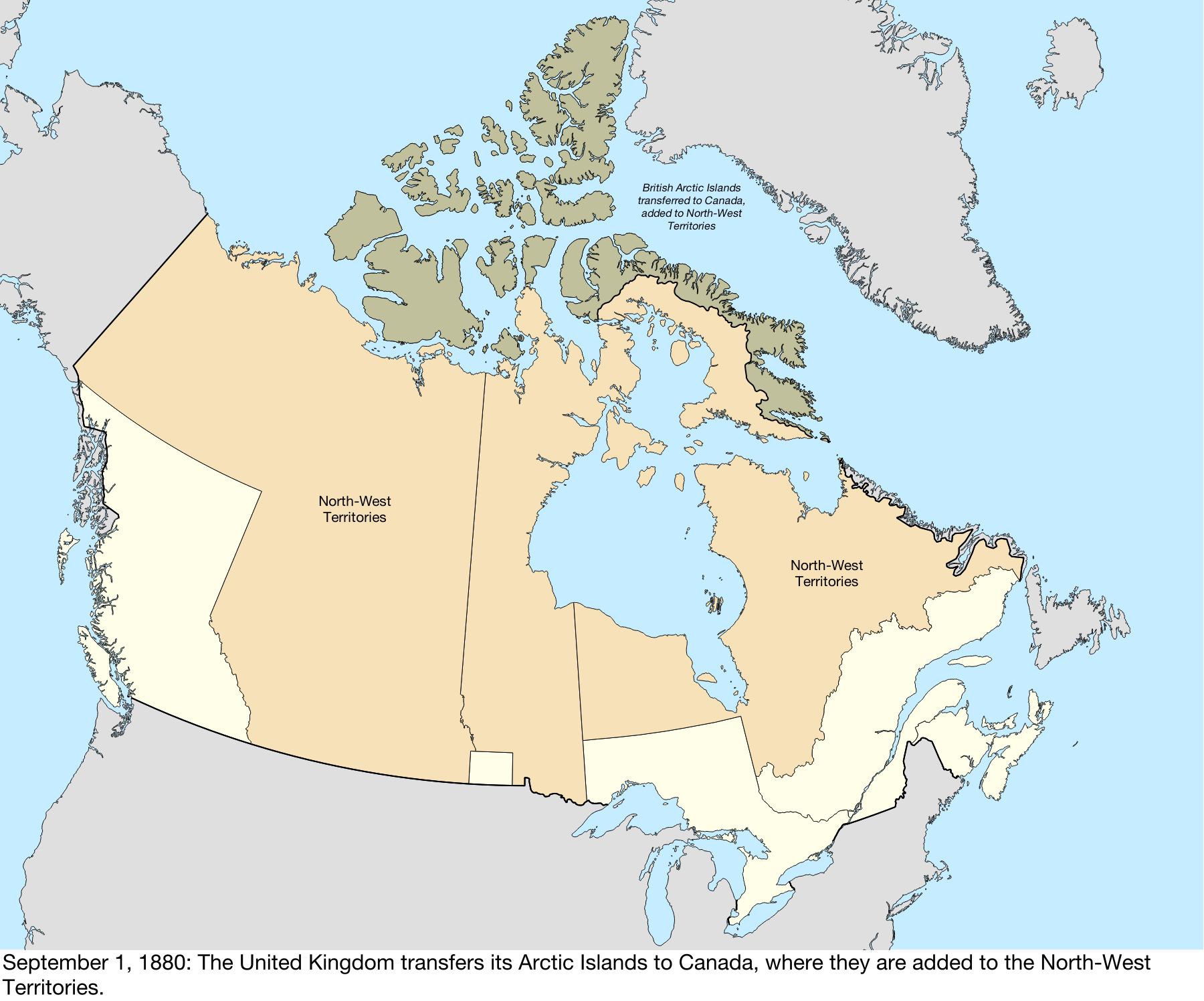 Map of the change to Canada on September 1, 1880.